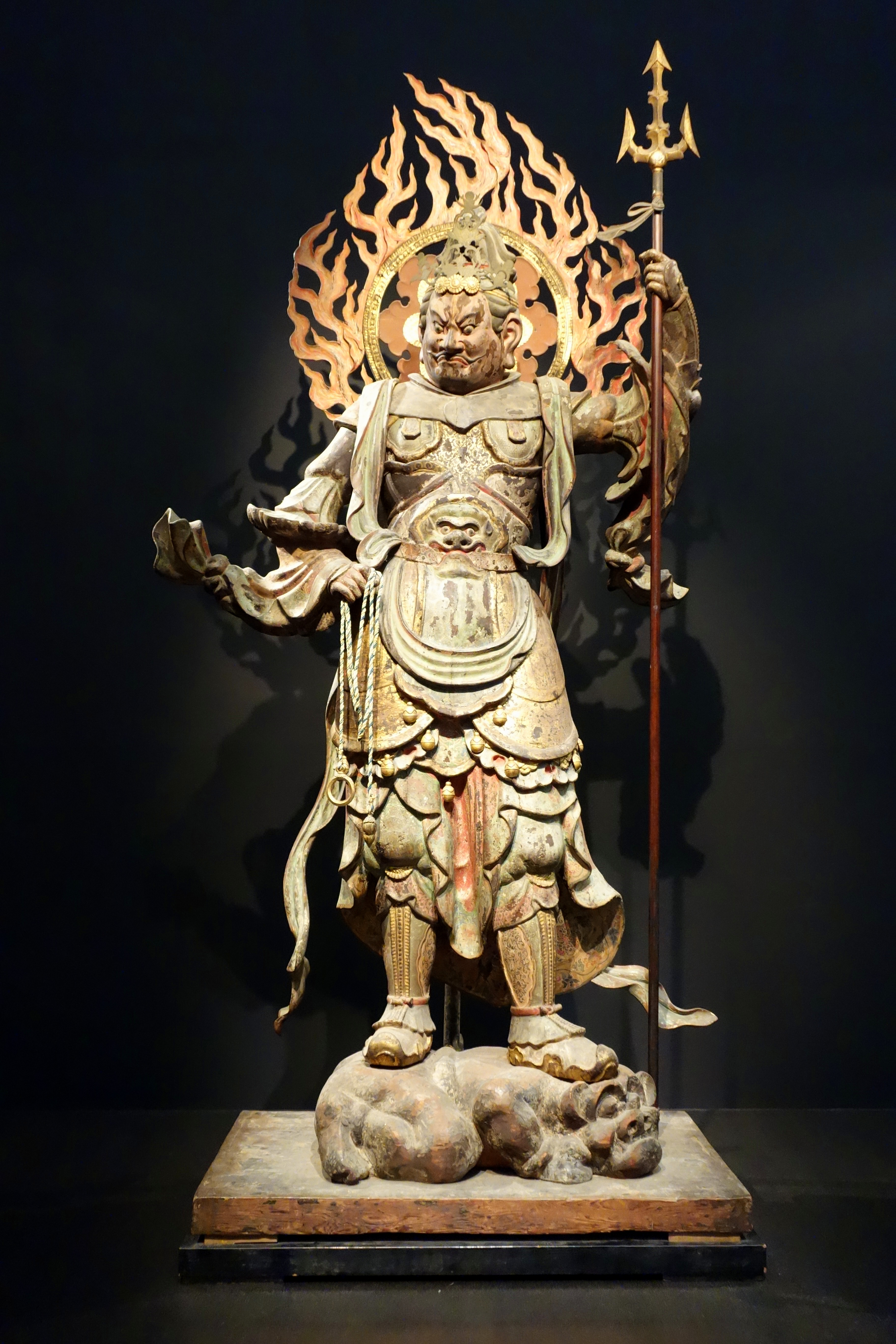 Exhibit in the Tokyo National Museum, Tokyo, Japan. This artwork is old enough so that it is in the public domain.